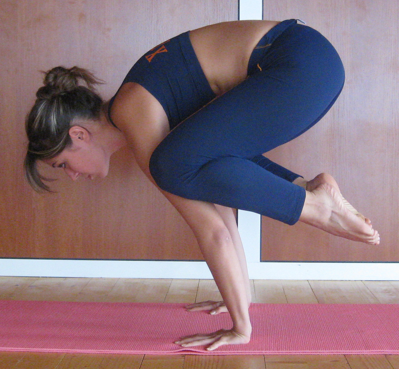 Crane